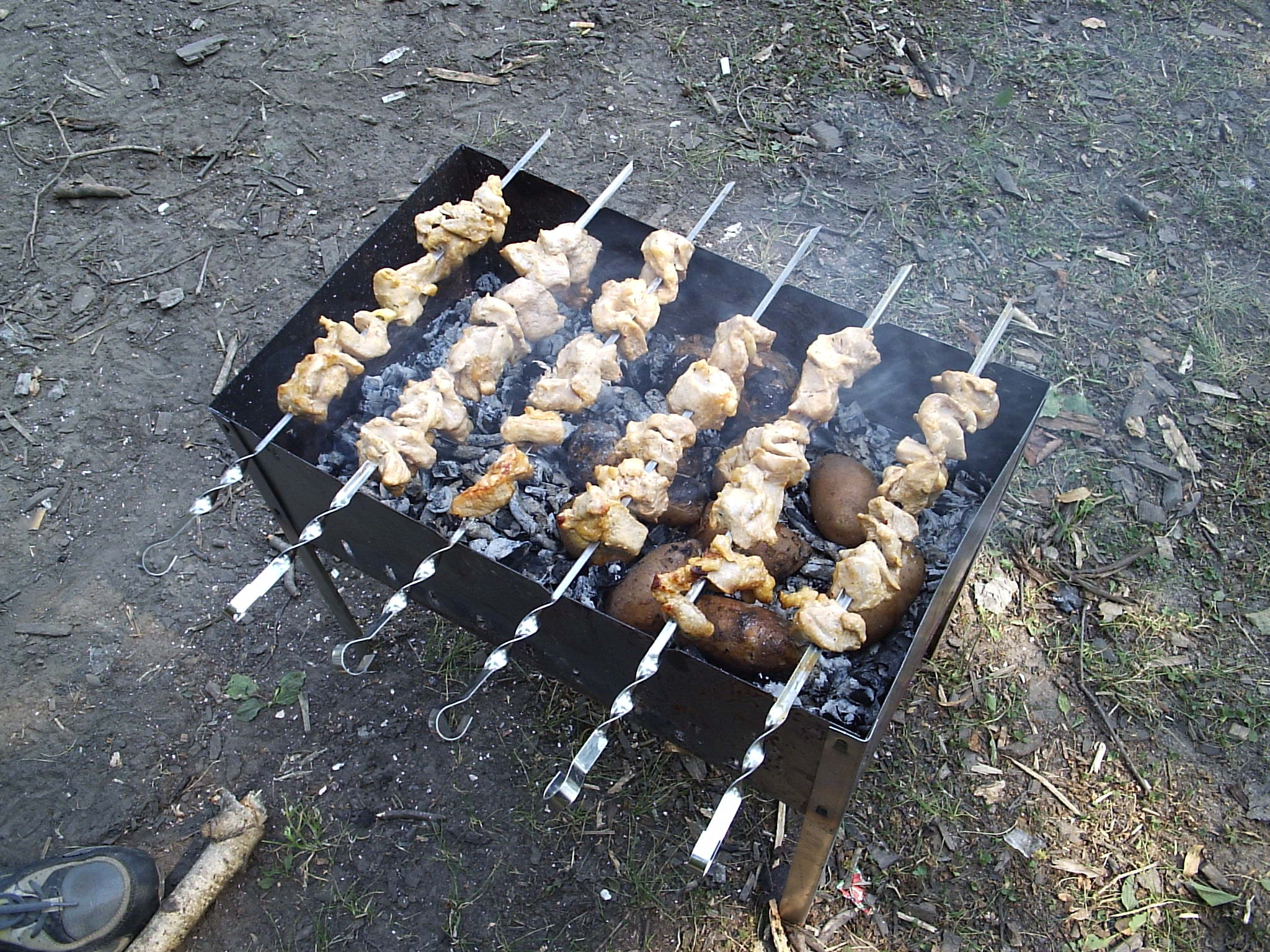 a food from Kazakhstan